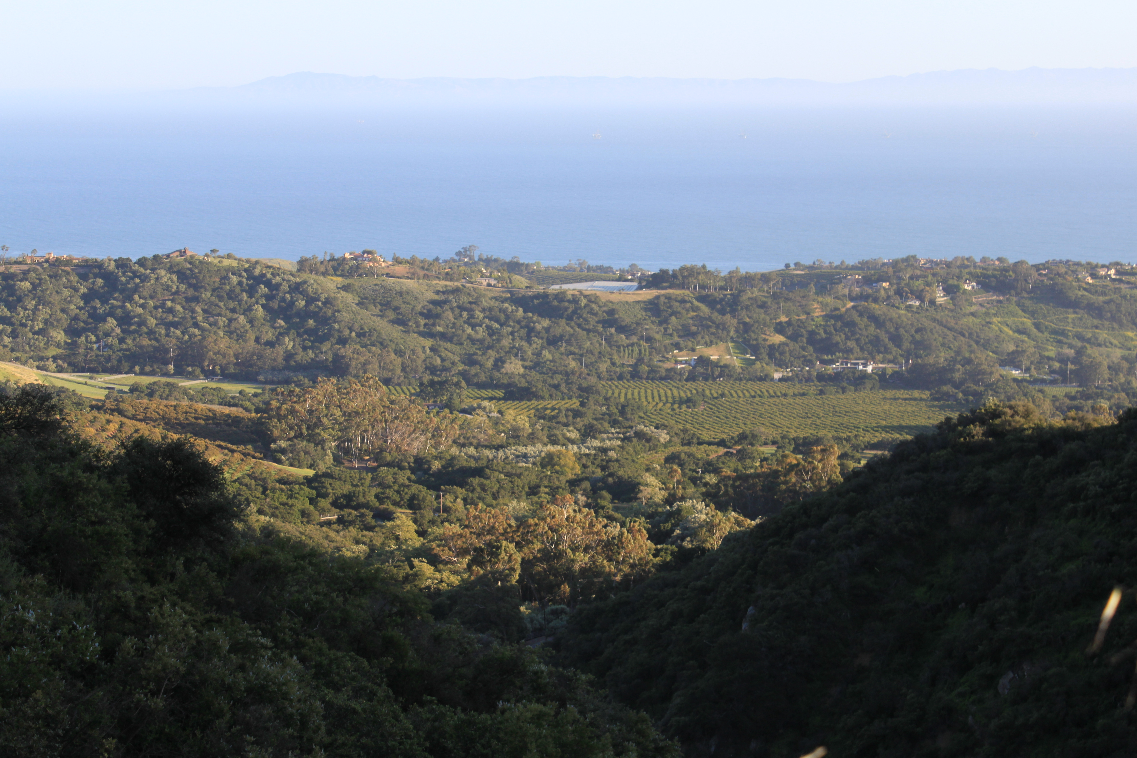 View of southern Montecito and upper Summerland, from the Santa Ynez Mountains in Santa Barbara County, Southern California. Islands of Channel Islands National Park, in the distance across the channel.